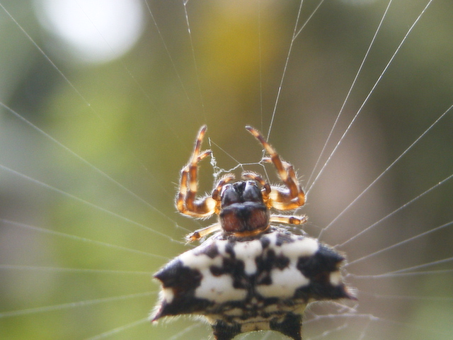 Black-and-white spiny orbweaver